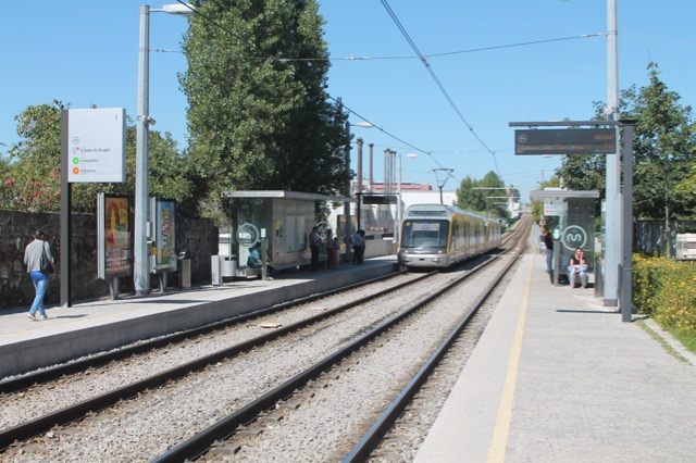 The Ramalde stop of the Metro do Porto